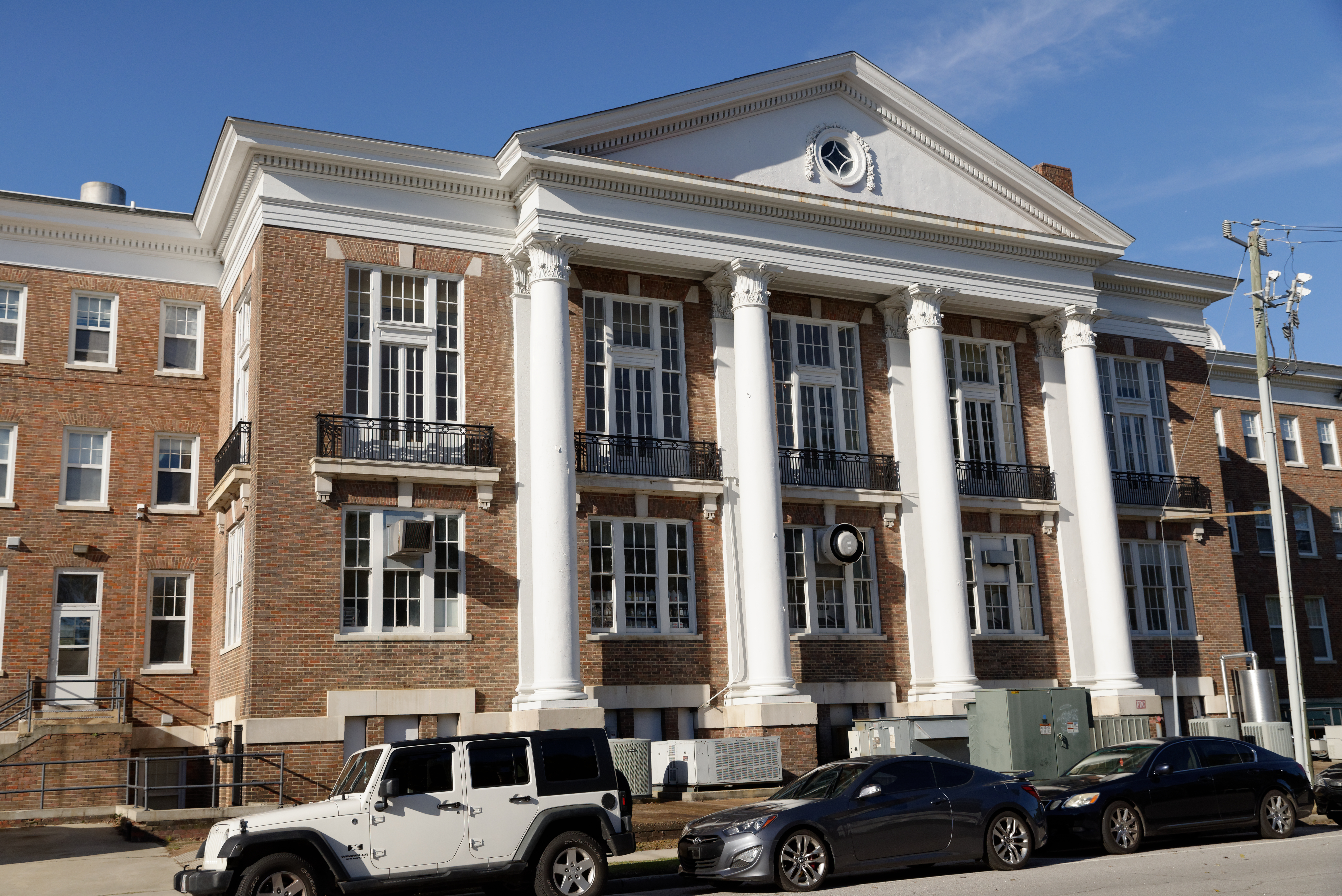 Susanne G. Linvile Dining Hall at Coker College, Hartsville, South Carolina, U.S.